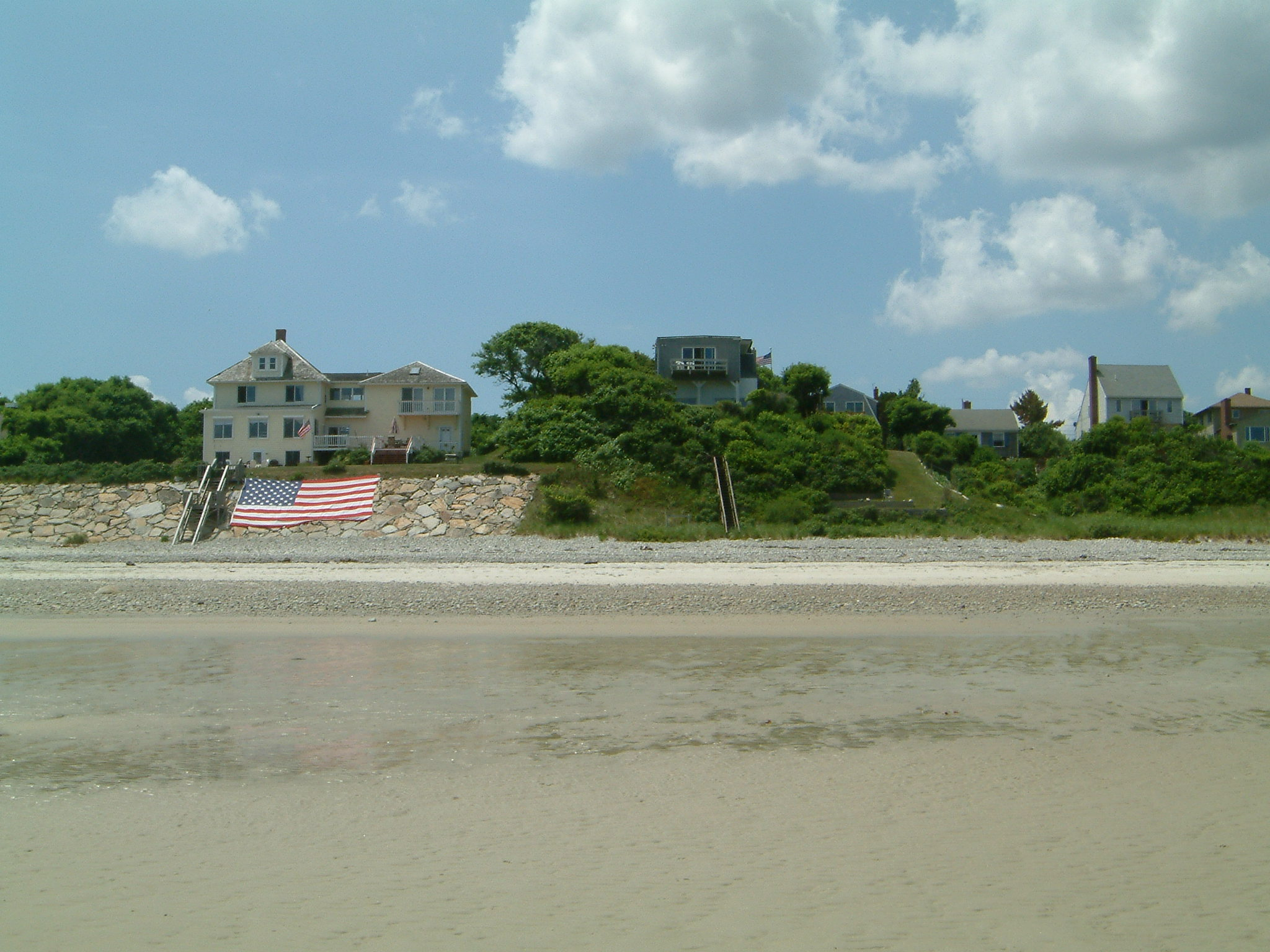 Houses at Priscilla Beach